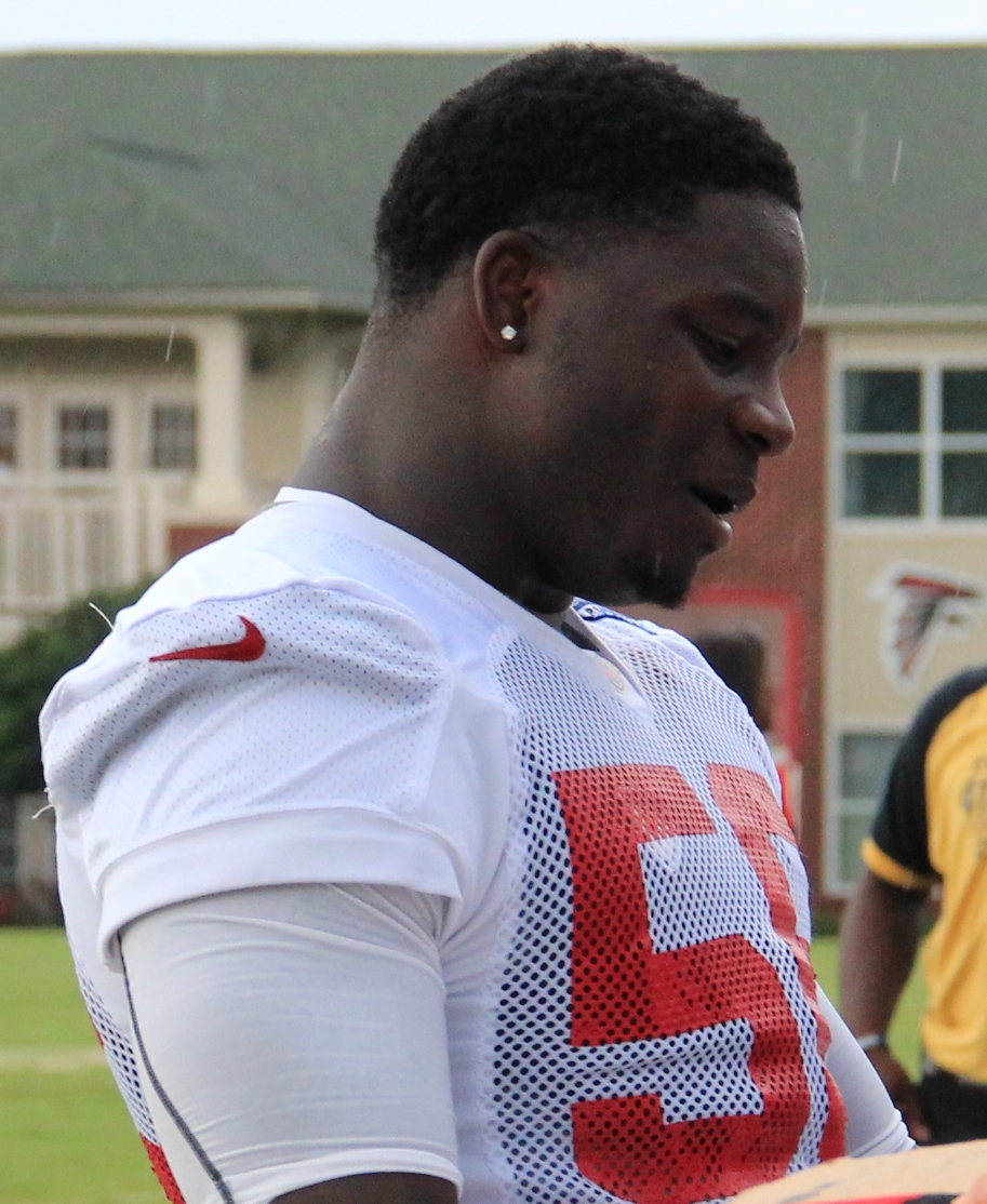 Sean Weatherspoon at training camp, 2013